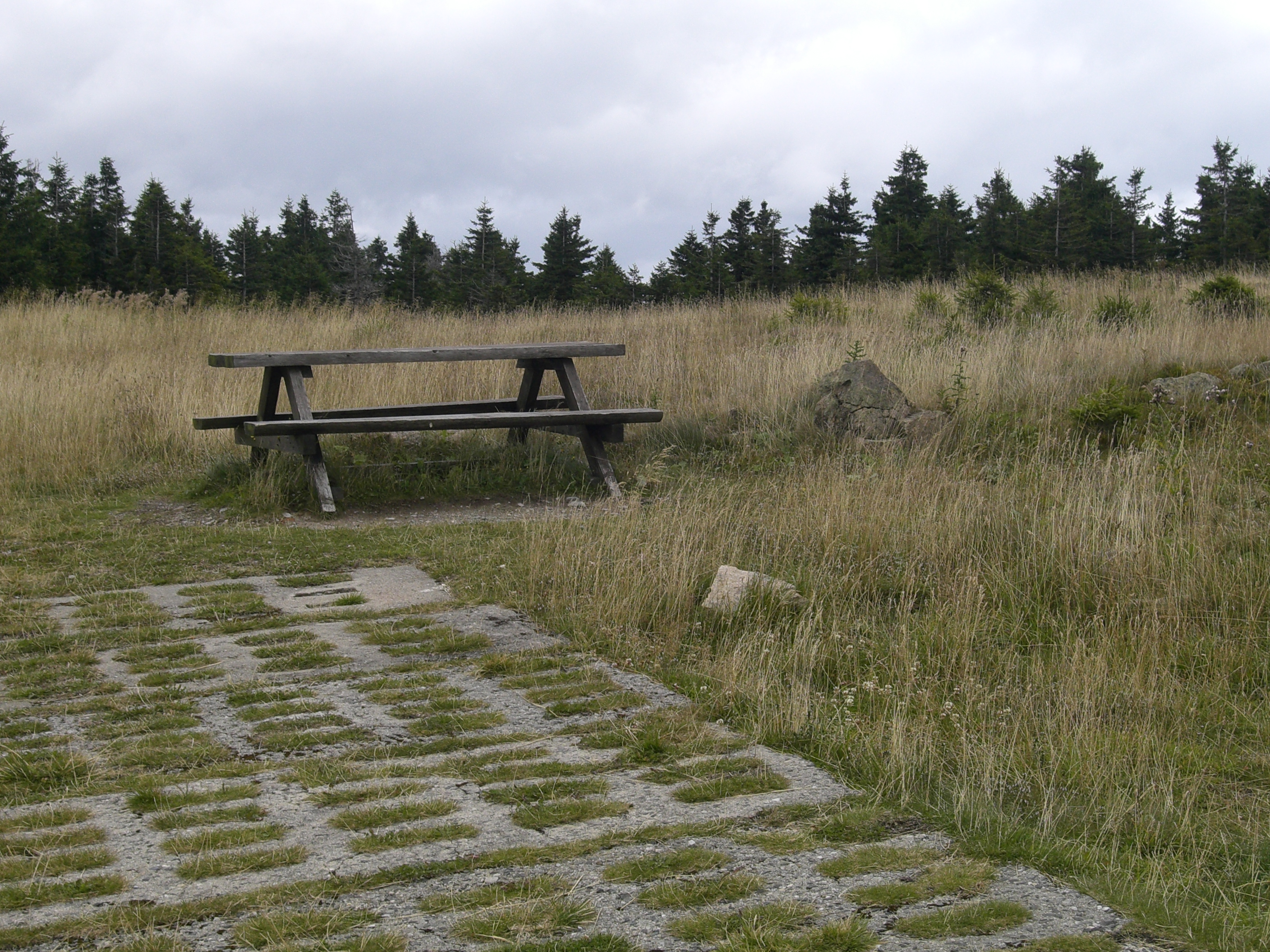 Table with benches on top of the Kleiner Broken mountain, Harz mountains, Saxony-Anhalt, Germany